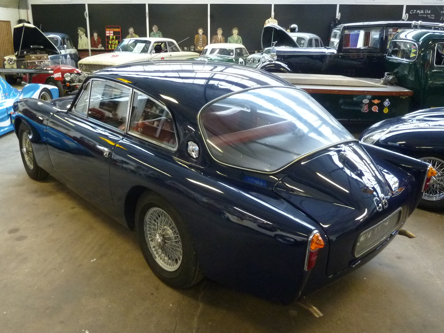 1962 AC Greyhound 240 YPJ